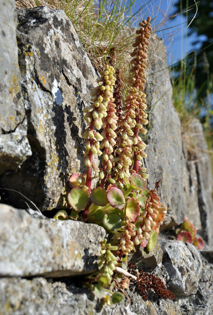 Flowering Navelwort - Llantwit Major This plant clings to the face of shady walls or rock with its roots deep in their crevices. It is also known as the Wall Pennywort. Here the plant has recently begun to bloom.